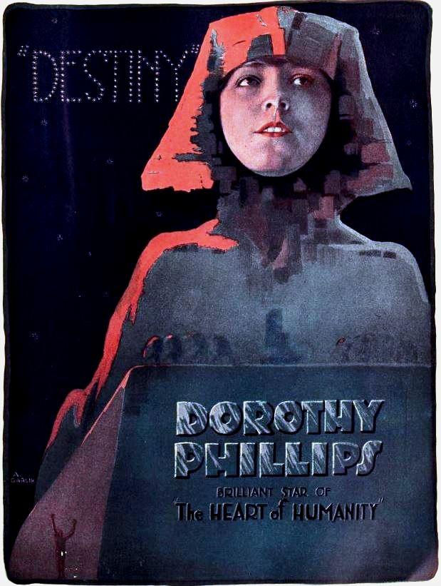 Ad for the American film Destiny (1919) with Dorothy Phillips, in the color insert after page 1998 of the June 28, 1919 Moving Picture World.